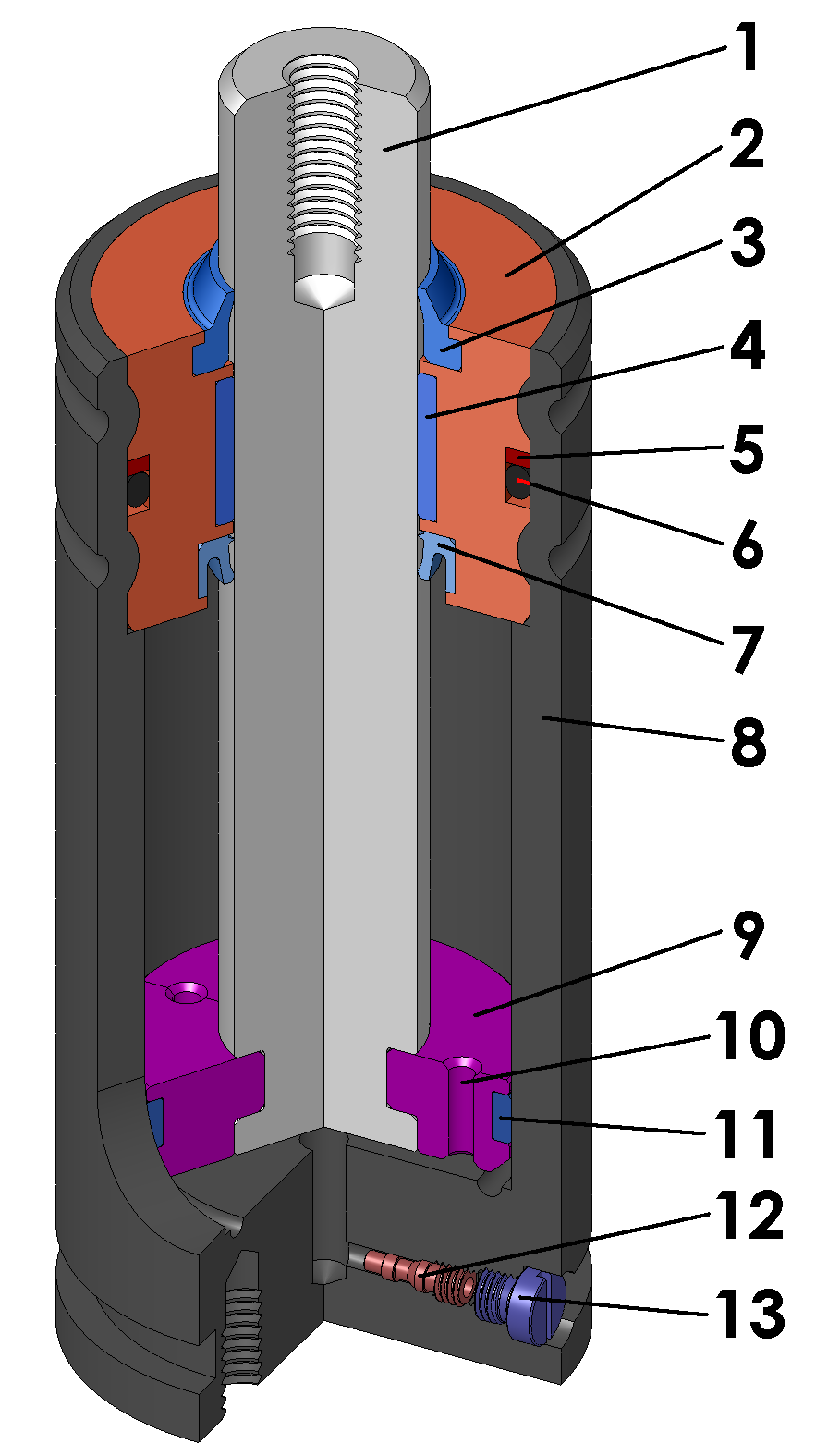 3D-view of a gas spring with sectional view. 1) Piston rod 2) Head cap 3) Piston rod wiper 4) Piston rod guide bushing 5) Retaining ring 6) O-ring 7) Piston rod seal 8) Cylinder 9) Piston 10) Flow-restriction orifice 11) Piston guide bushing 12) Valve 13) Valve-sealing screw